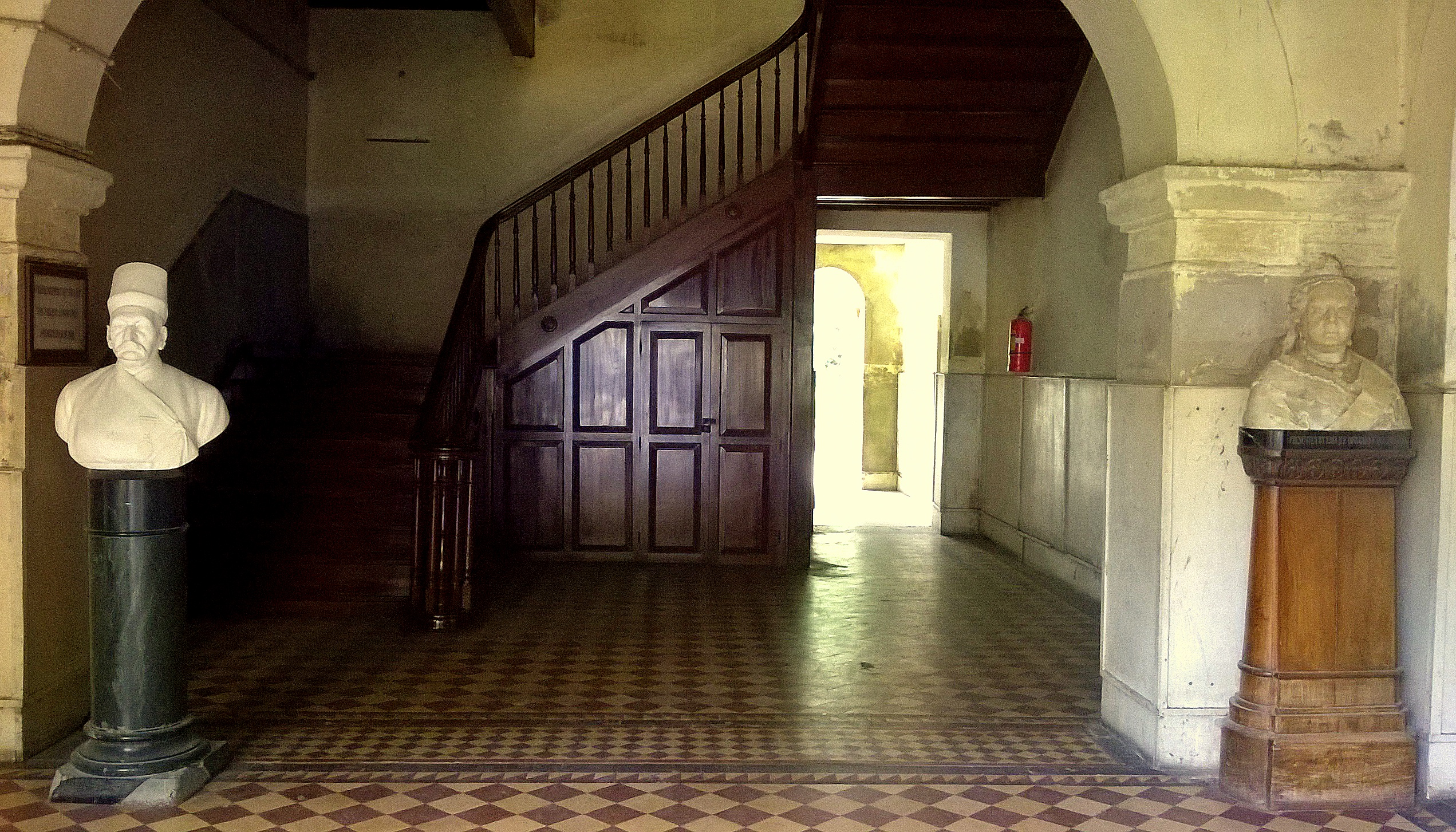 Sculptures of Mr. Dinshaw and Lady Victoria. This is a photo of a monument in Pakistan identified as the SD-P-112